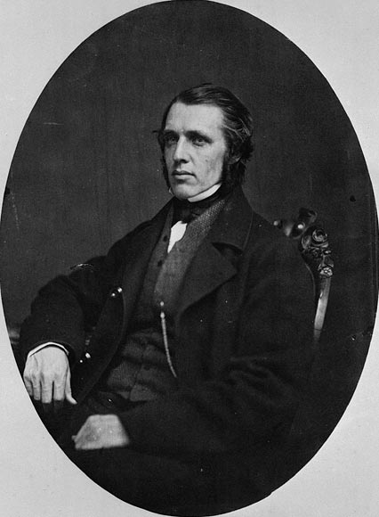 William McDougall (politician), from Archives Canada [1]